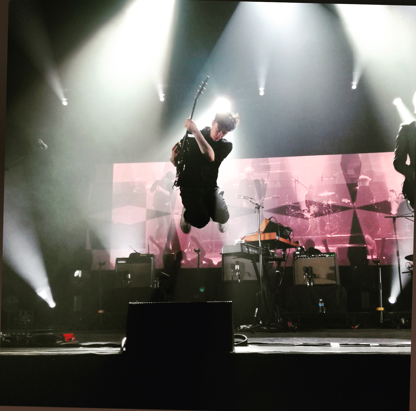 Corrie performing with Franz Ferdinand in Caen, 2018